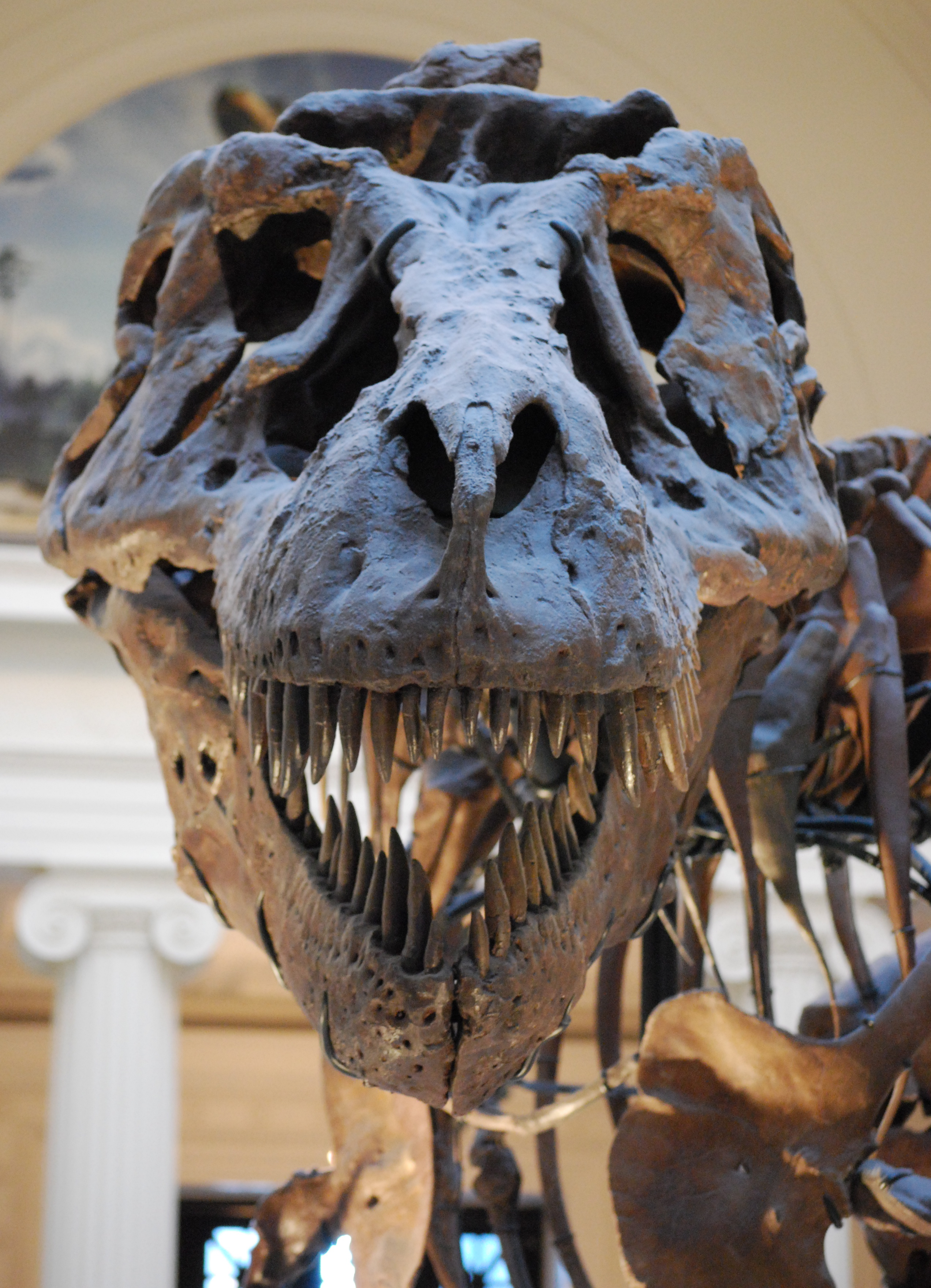 Close up of "Sue" T-Rex replica skull at the Field Museum of Natural History in Chicago, IL.